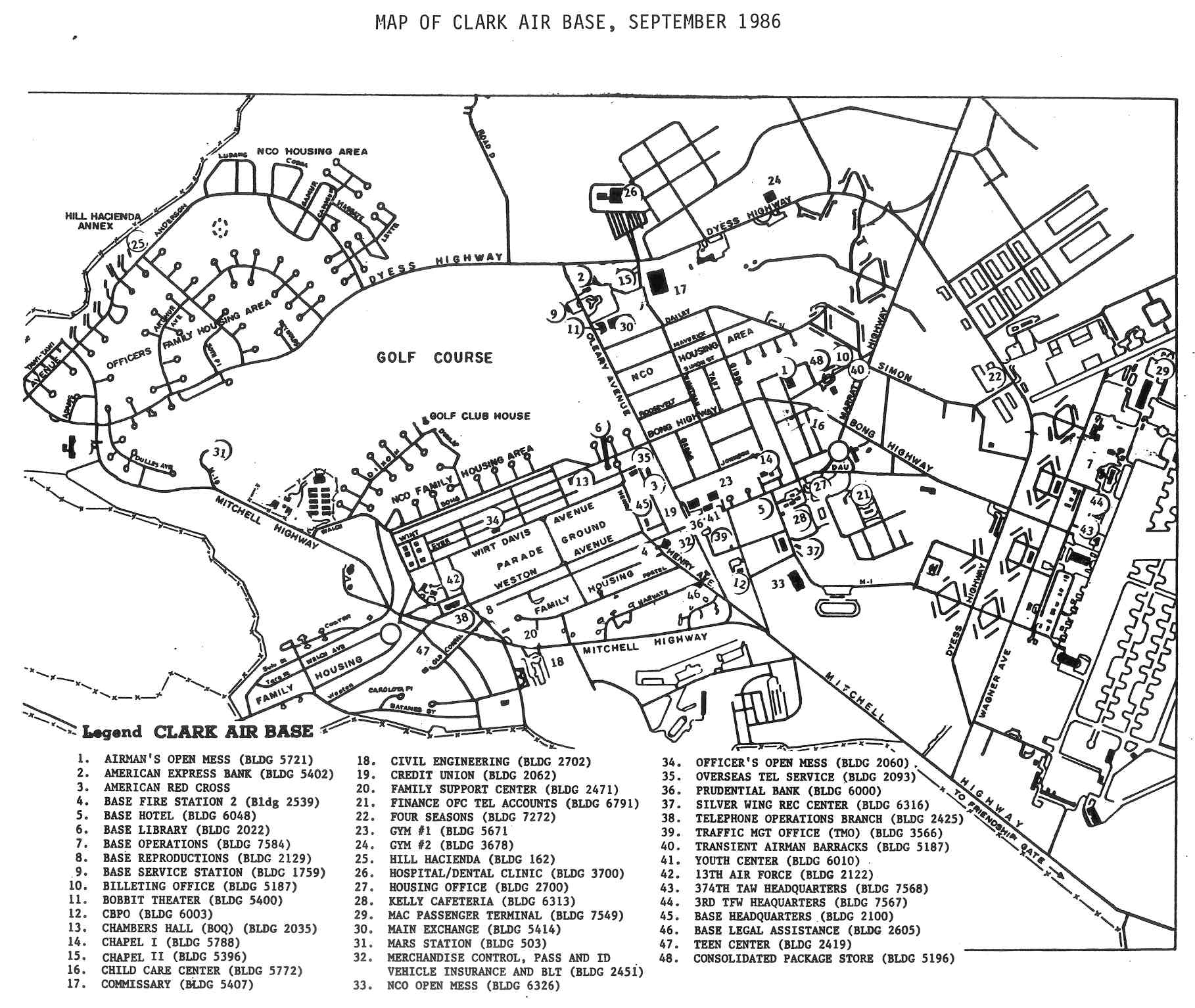 Map of Clark Air Force Base, Philippines, September 1986